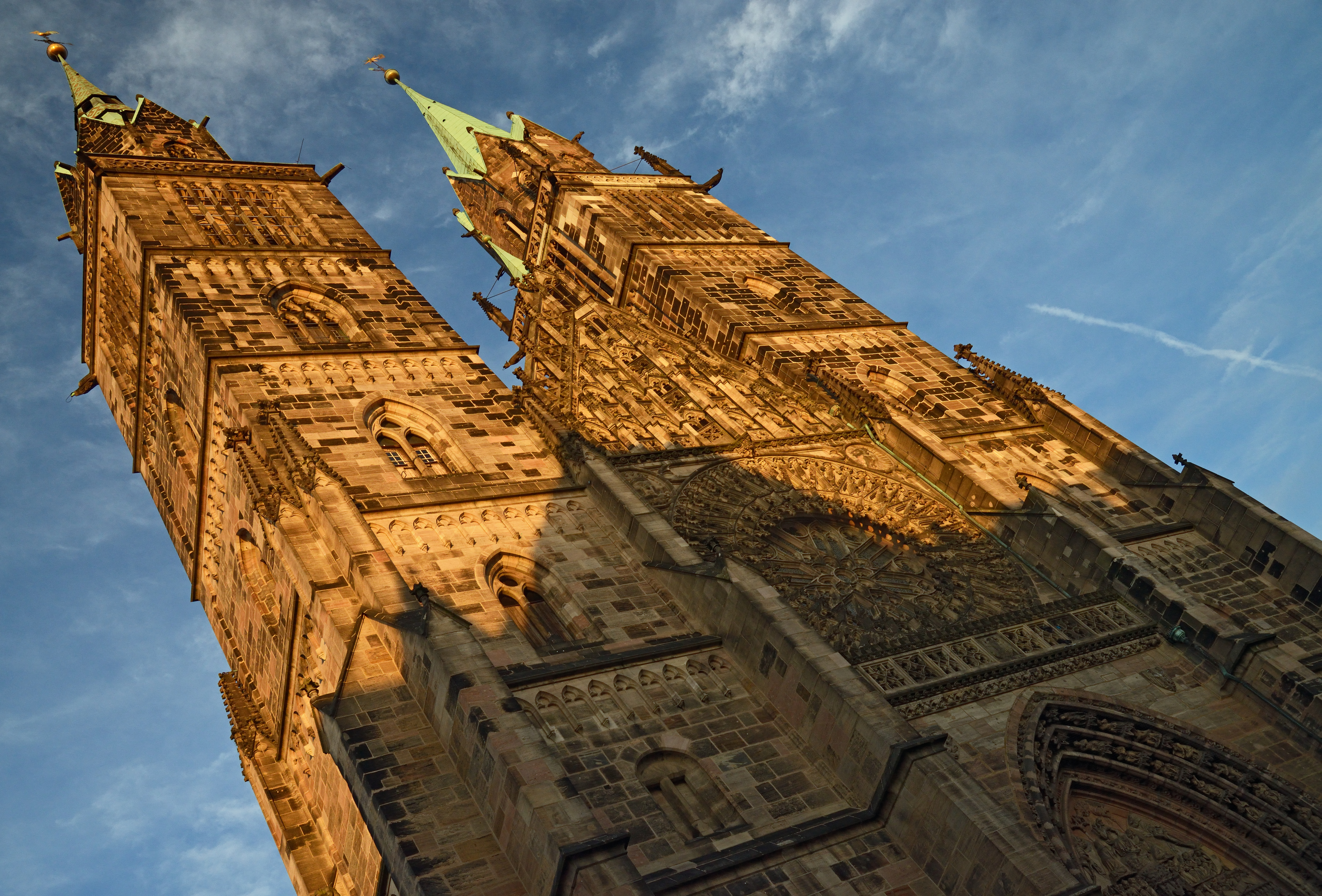 St. Lorenz during sunset. Nuremberg, Germany